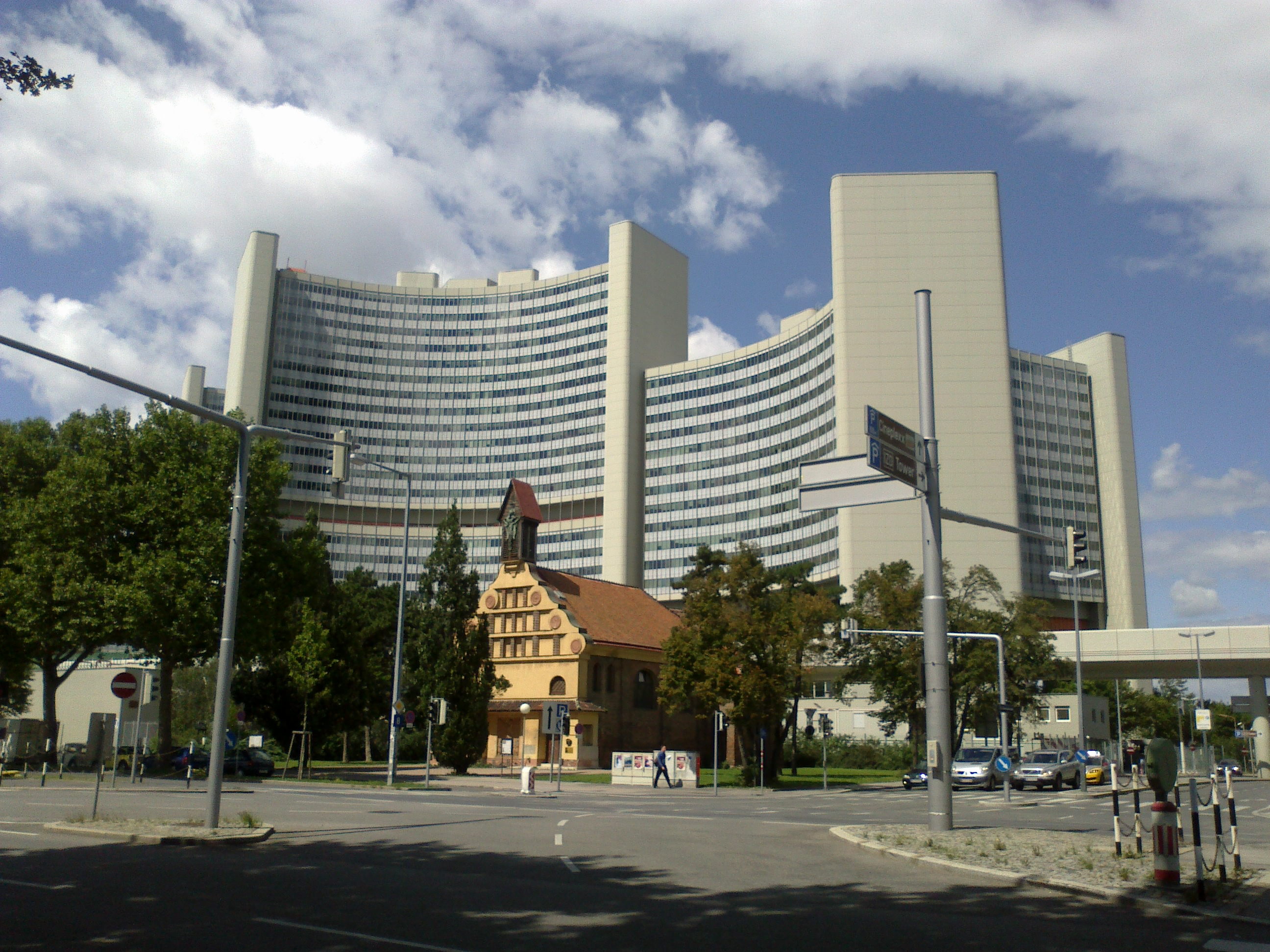 United Nations, vienna